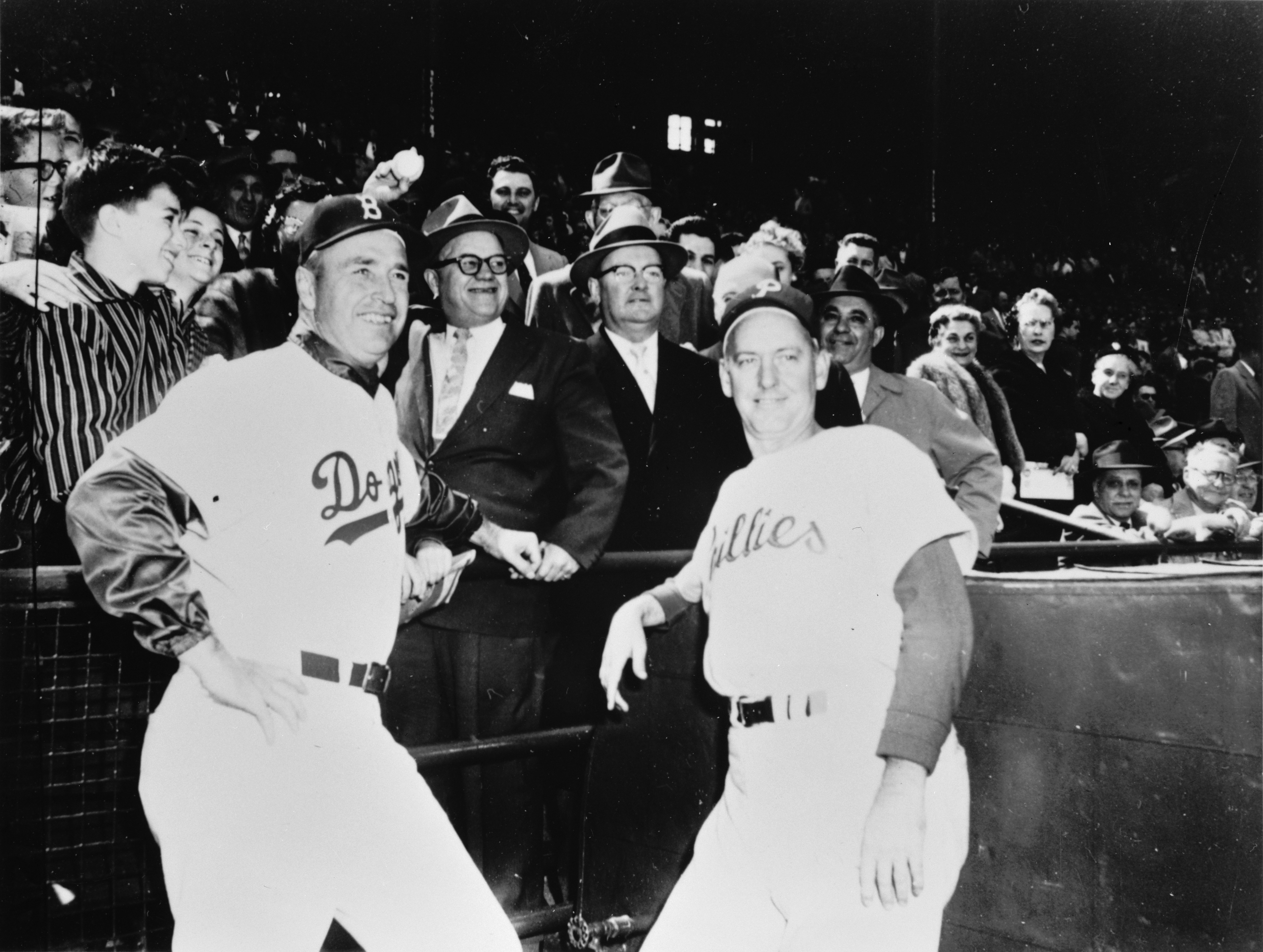 Brooklyn Dodgers manager Walter Alston with Philadelphia Phillies manager Mayo Smith before a game at Roosevelt Stadium in Jersey City, New Jersey. Edges cropped slightly. → This file has an extracted image: File:Mayo Smith 1957.png.